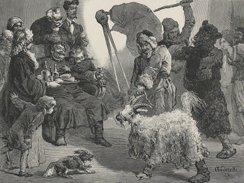 A man presenting a goat at a Malanka ceremony